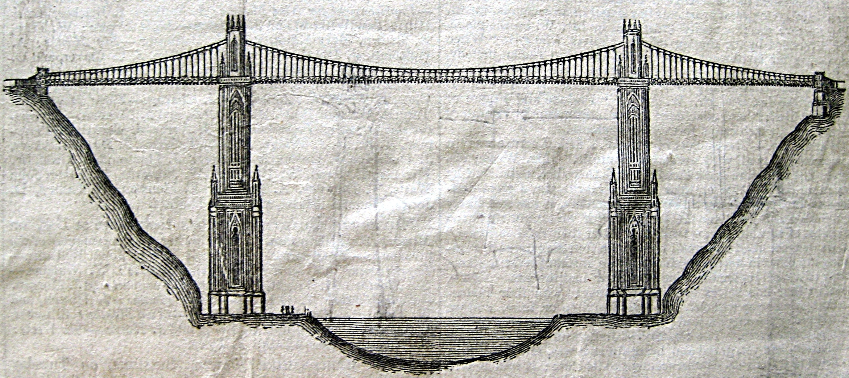 Thomas Telford's plan for the Clifton Suspension Bridge. From the Bristol Mercury, February 1830